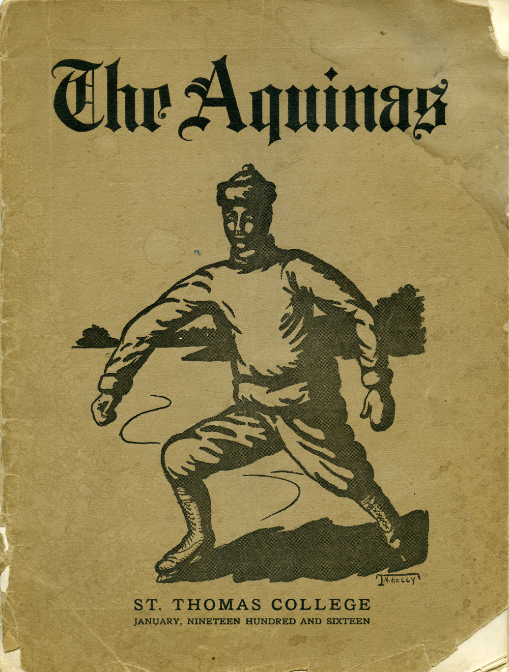 The first issue of The Aquinas, published in January 1916. Initially founded as a literary magazine, The Aquinas became the student newspaper of St. Thomas College (present-day University of Scranton) in 1931.